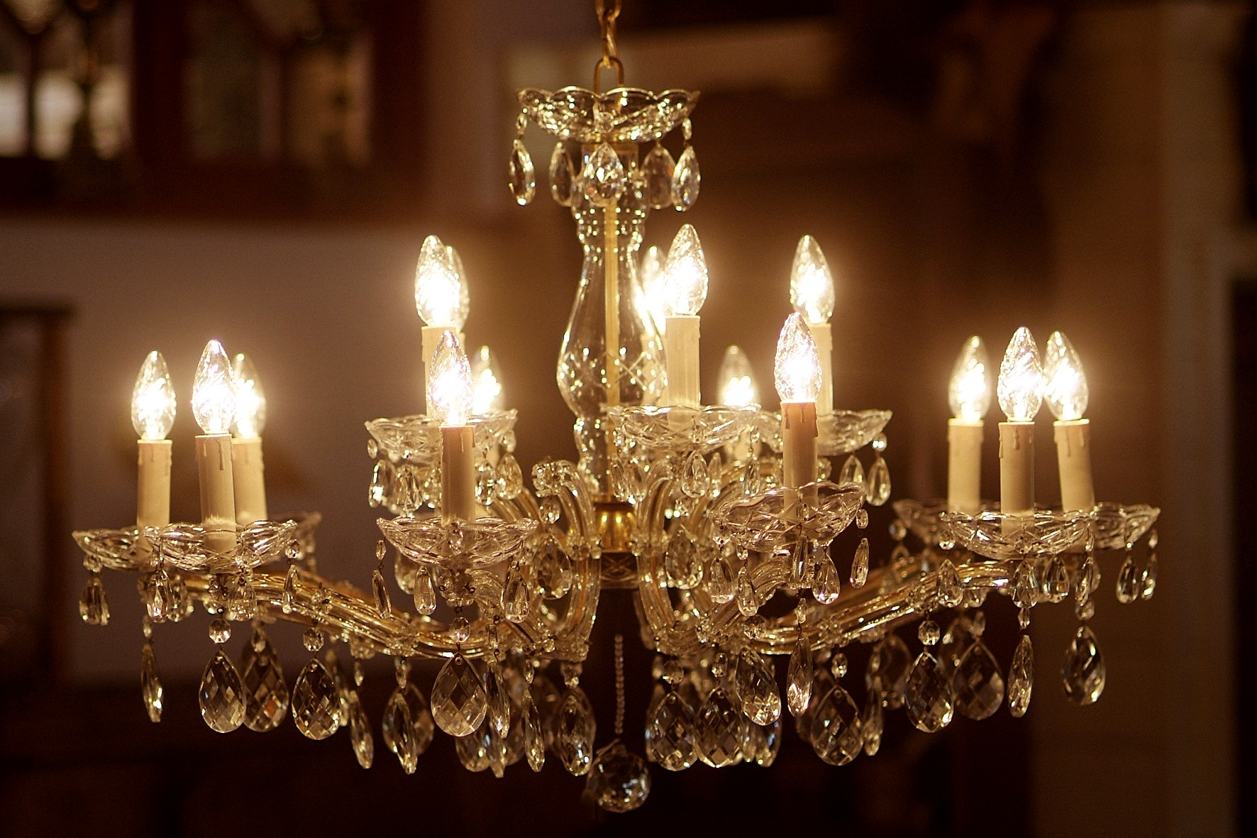 Maria Theresia Chandelier